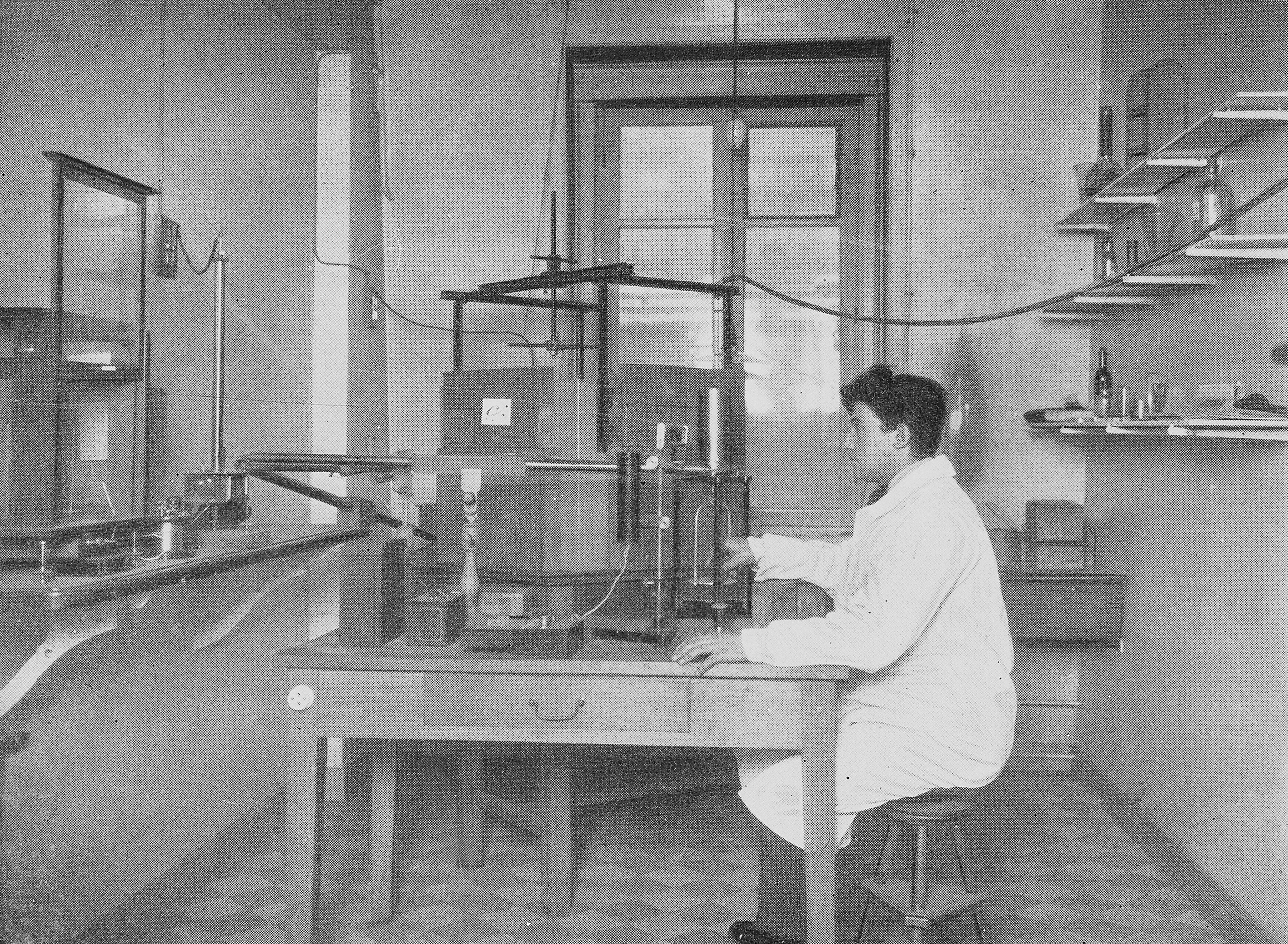 The room for preparing Radon at the Radium Institute, Paris. Radio-Physiological Lab. 1. Concrete strong box lined with lead bricks. 2. Vacuum pumping apparatus. 3. A Macleod Guage. General Collections Keywords: Radiation